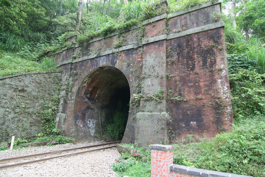 Old Mountain Railway tunnel 舊山線一號隧道北口